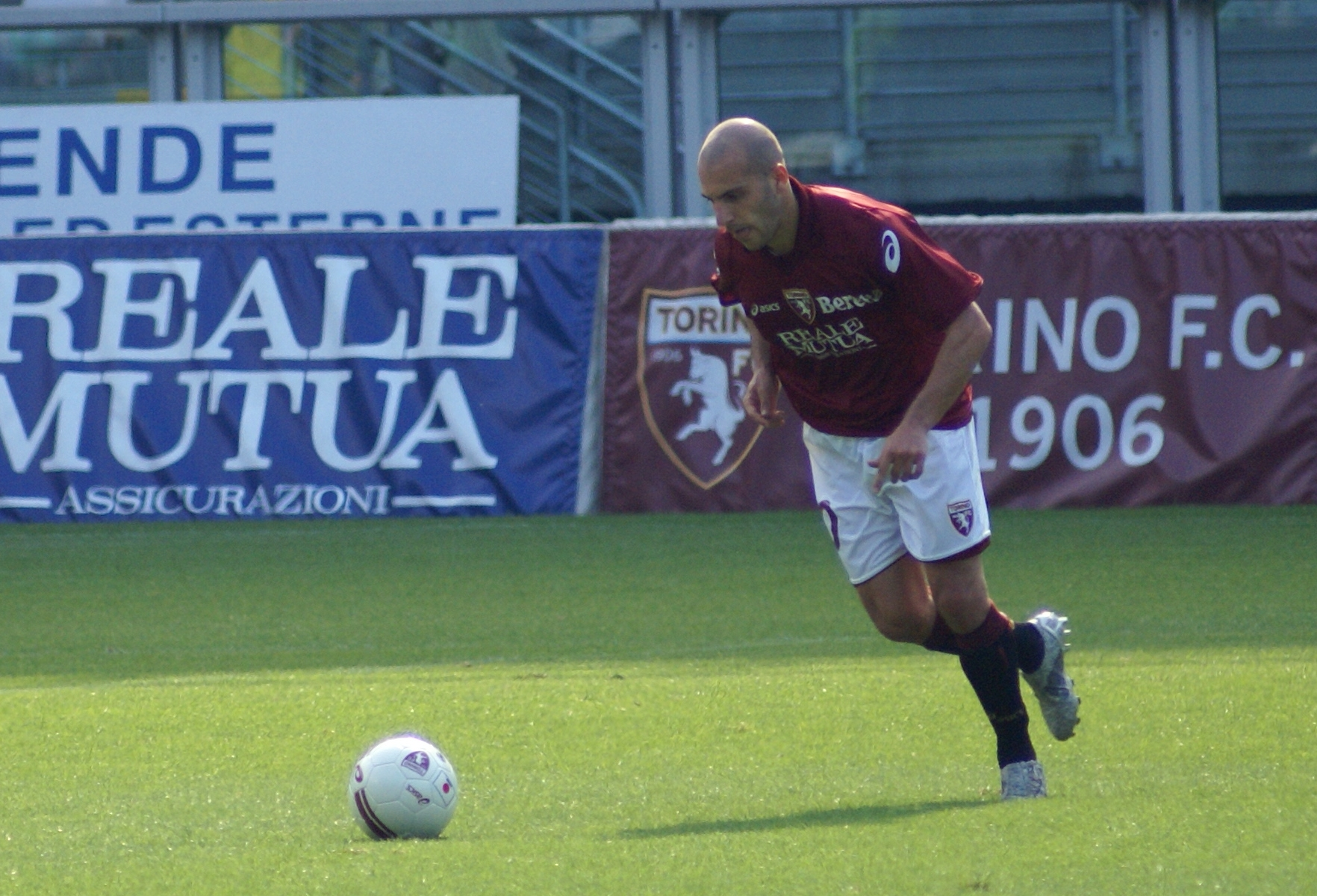 Alessandro Rosina, soccer player of Torino F.C., during match Torino-Atalanta 1-2 Serie A Championship 2006-07